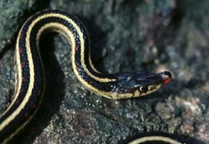 The image shows a Butler's Garter Snake, a subspecies of the Common Garter Snake.